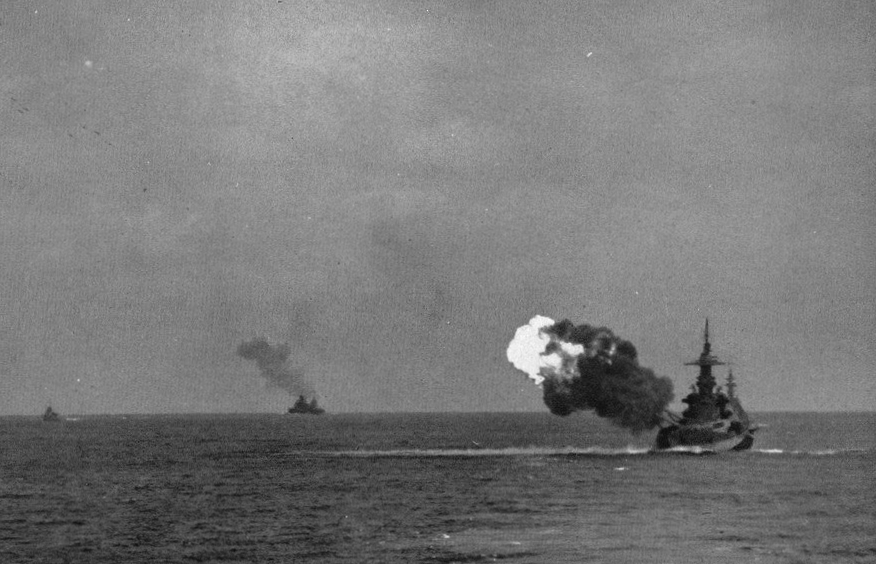 The U.S. Navy battleship USS North Carolina (BB-55) firing her main armament. Note the outbound shells in the upper left corner of the photo.